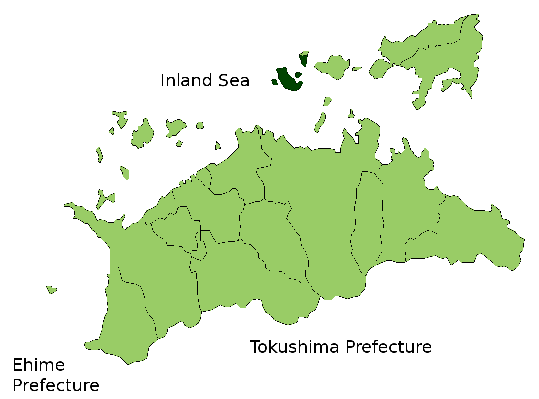 Map of Kagawa Prefecture highlighting Naoshima town. Borders of map as of October, 2006. (blank map used from [1]) See also Image:KagawaMapCurrent.png